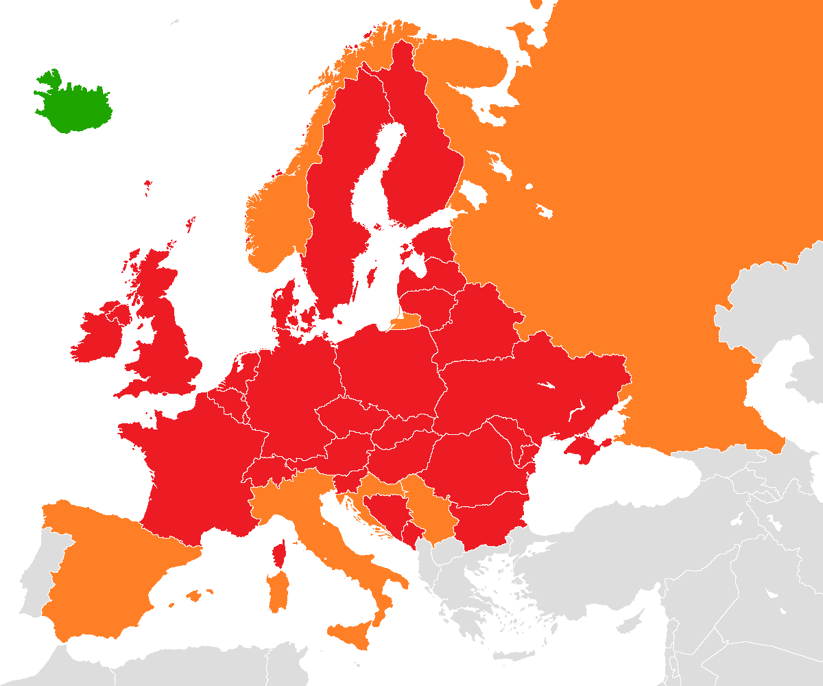 European airspace closed (red) / Partial european airspace closed (orange) / Iceland (green)